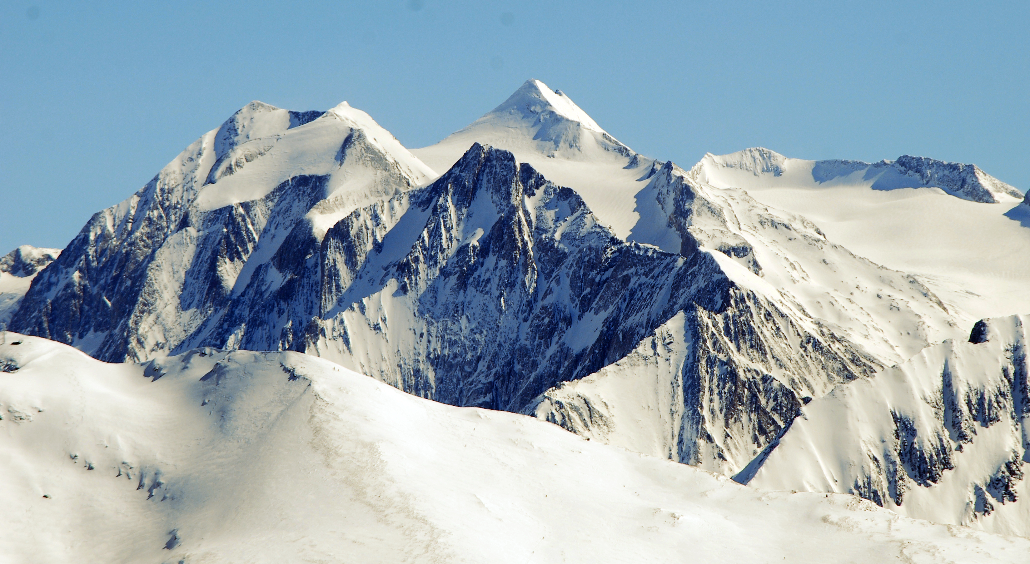 Zillertal Alps with Hochfeiler from W (Grubenkopf)